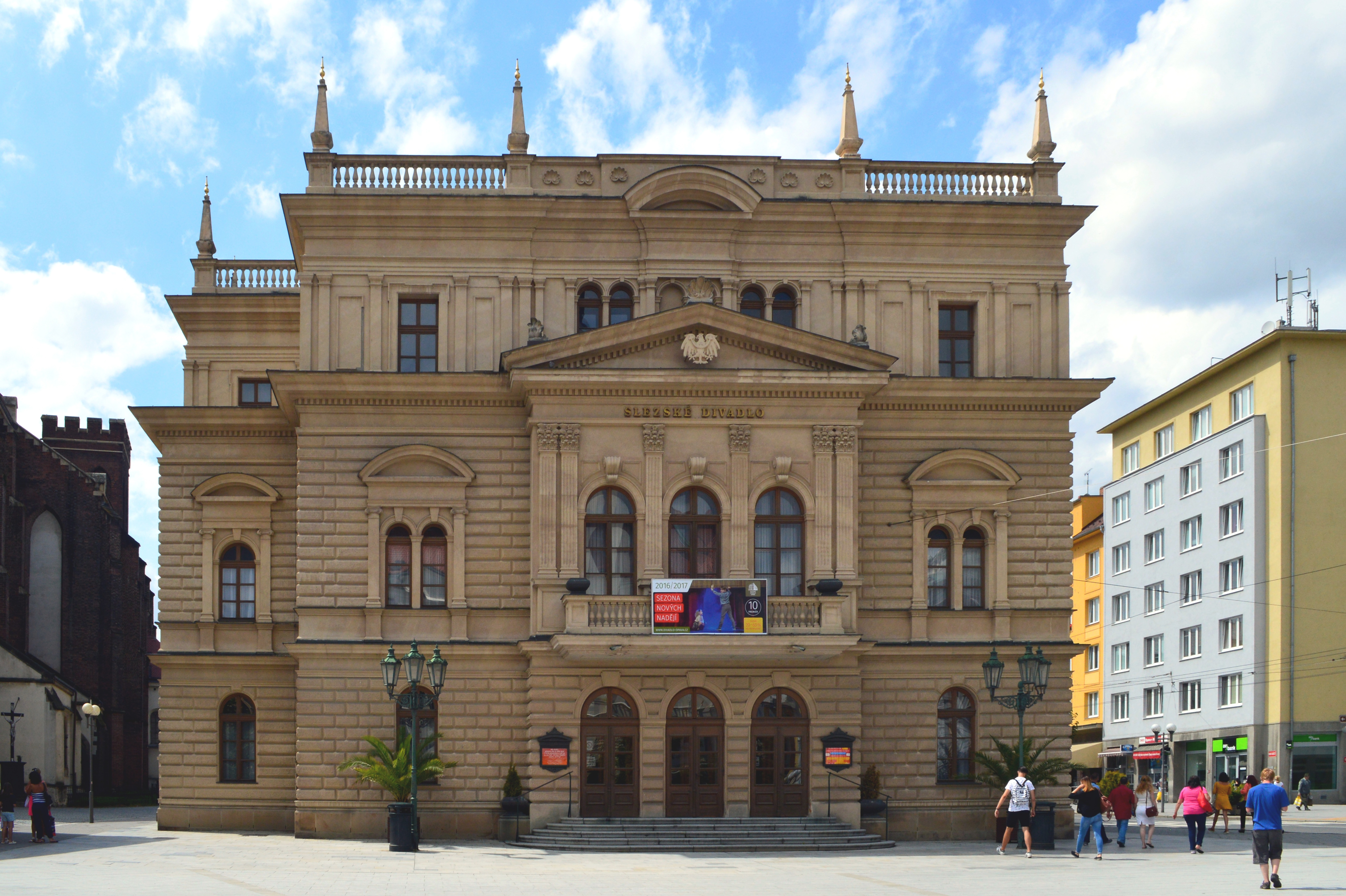 Opava is a city in the northern Czech Republic on the Opava River, located to the north-west of Ostrava. The historical capital of Czech Silesia, Opava is now in the Moravian-Silesian Region, and is located on the Opava Hilly Land (a part of the Silesian Lowlands) on the Opava River (left tributary of the Oder River) and Moravice River (right tributary of the Opava River). Opava was first documented in 1195. First mention of Magdeburg city rights came from 1224. It was capital of the Silesian, Bohemian and finally Austrian Duchy of Opava. In 1614 Karl I of Liechtenstein became Duke of Opava. After the majority of Silesia was annexed by the Kingdom of Prussia during the War of the Austrian Succession after 1740, the remaining Silesian territory still under the control of the Habsburg Monarchy became known as Austrian Silesia, with its capital in Troppau (1742–1918). The Congress of Troppau took place there in the period 27 October- 17 December 1820. After the defeat of Austria-Hungary in World War I, Troppau became part of Czechoslovakia in 1919 as Opava. While the Duchy of Opava has ceased to exist, the title of Duke of Troppau lives on to present day, with Hans-Adam II, Prince of Liechtenstein being the current incumbent. The Scotch Mist Gallery contains many photographs of historic buildings, monuments and memorials of Poland and beyond.